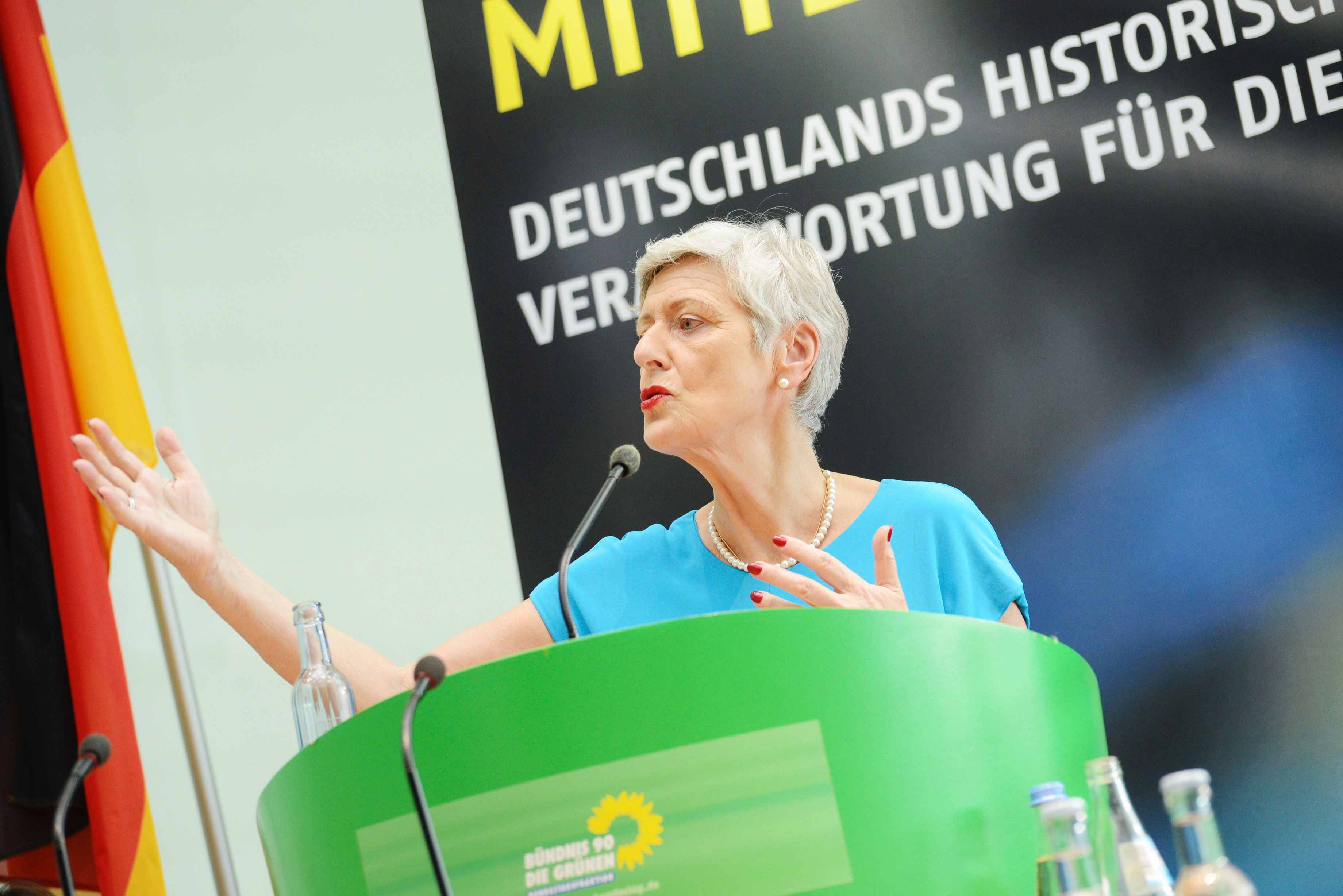 Marieluise Beck, speaker for east european politics of the parliamentary group of The Greens, at an event of the parliamentary group of The Greens